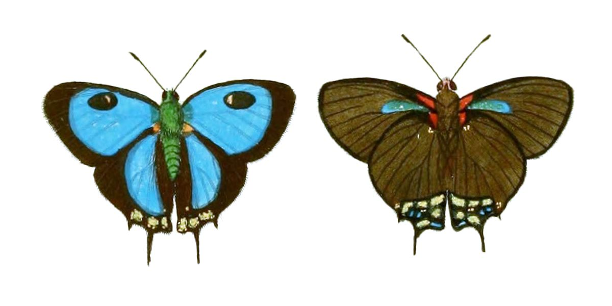 Great Purple Hairstreak, upperside (left) and underside